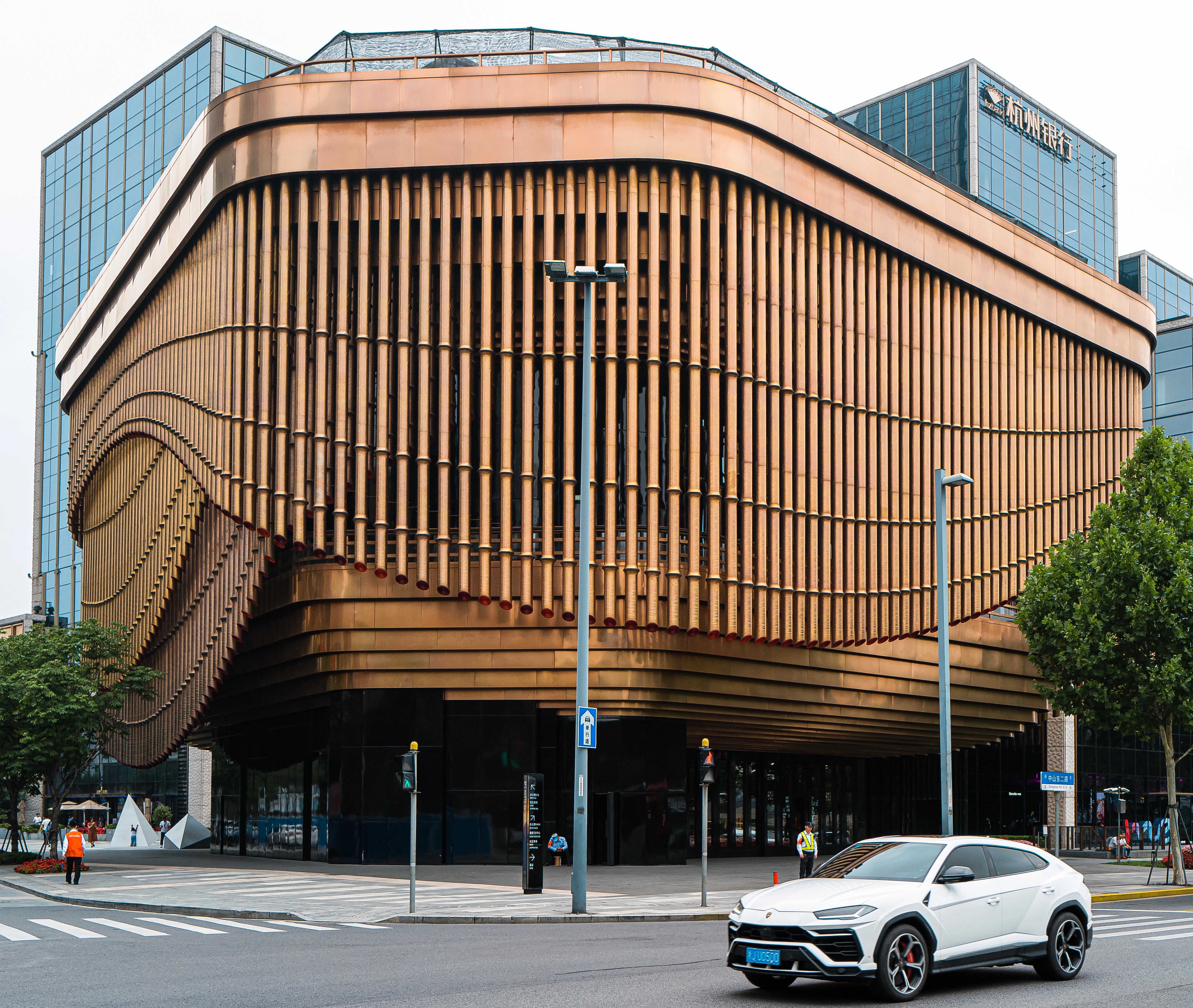 Lamborghini Urus in-front of Bund Finance center